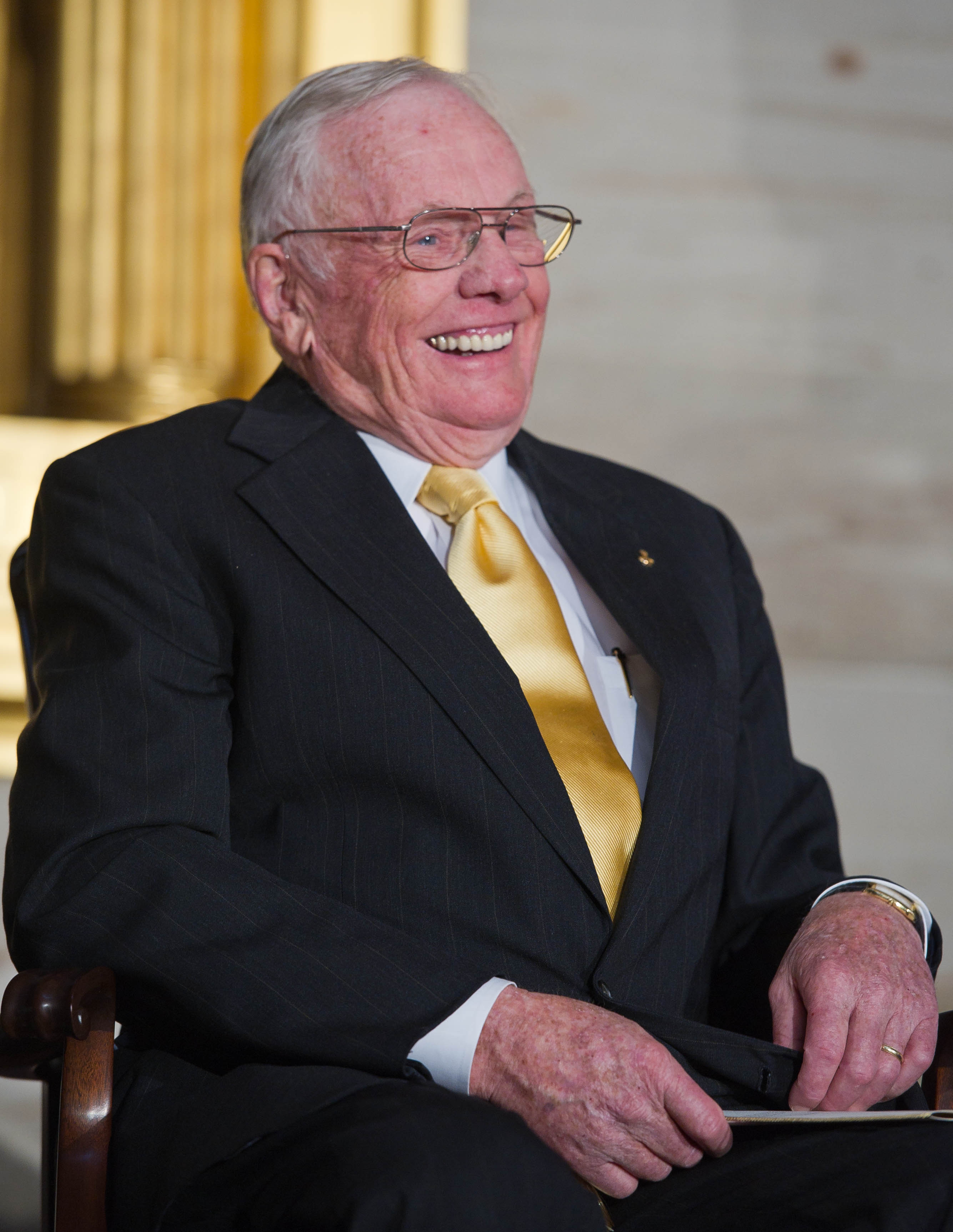 Apollo 11 astronaut Neil Armstrong, the first man to walk on the Moon, laughs at a remark made during a Congressional Gold Medal ceremony honoring himself, Buzz Aldrin, Michael Collins and John Glenn in the Rotunda at the U.S. Capitol, Wednesday, Nov. 16, 2011, in Washington. The Congressional Gold Medal is an award bestowed by Congress and is, along with the Presidential Medal of Freedom the highest civilian award in the United States. The decoration is awarded to an individual who performs an outstanding deed or act of service to the security, prosperity, and national interest of the United States.